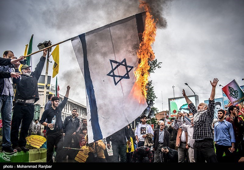 Quds day in Rasht